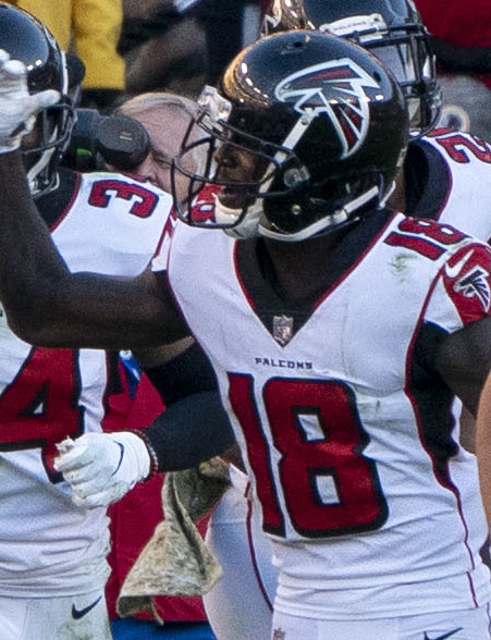 Members of the Atlanta Falcons on the field at FedExField in November of 2018